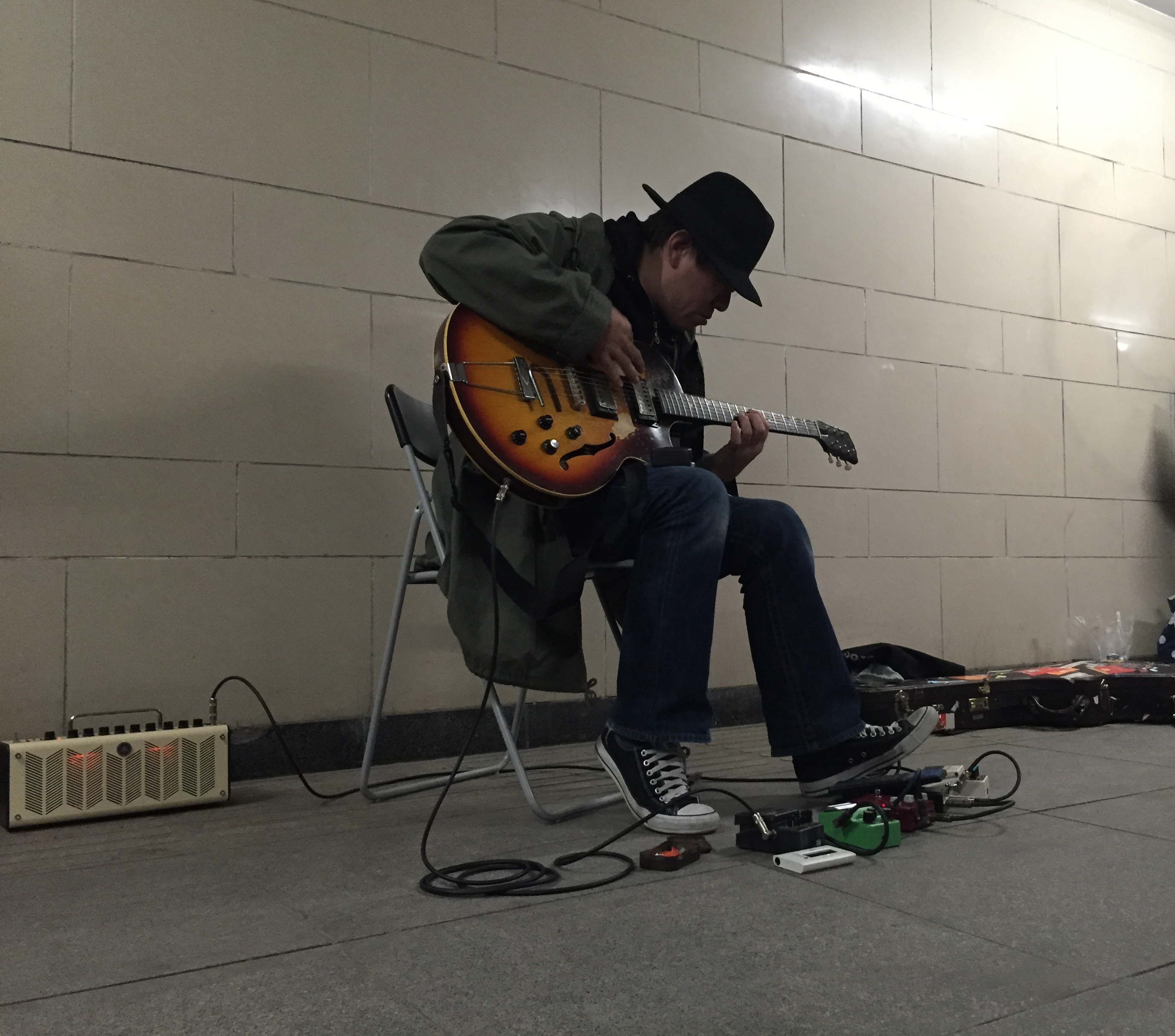 Musician Otomo Yoshihide play guitar at underpass in Beijing